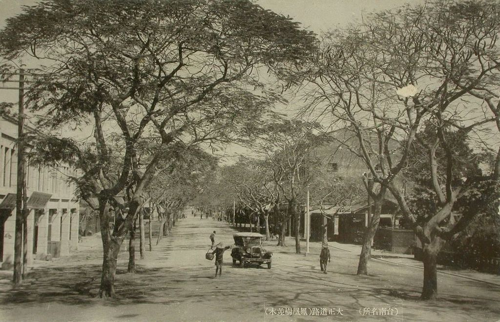 An old postcard; Taisho Doro(大正道路, Taisho Blvd), Tainan, Taiwan, Japan